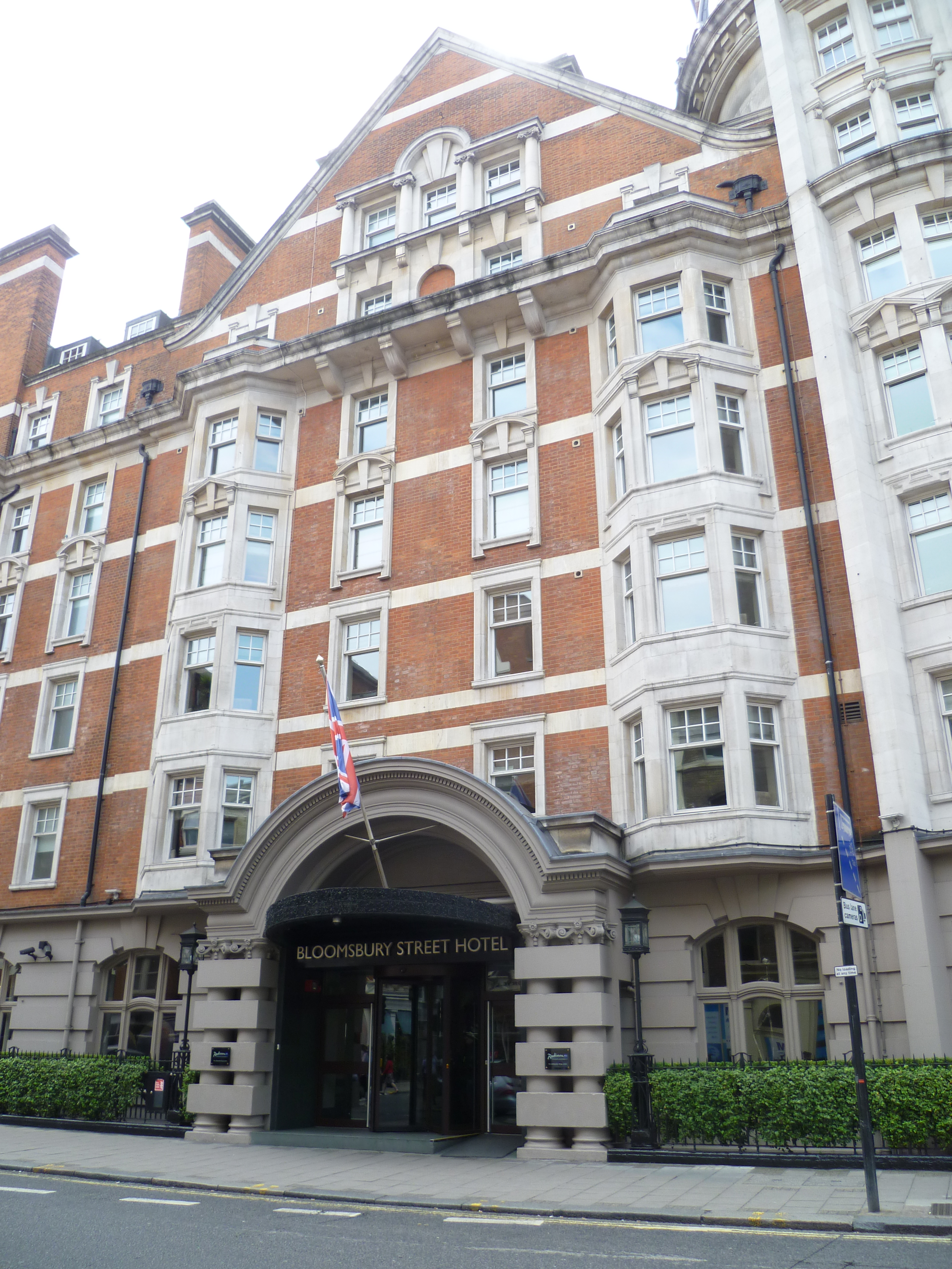 London